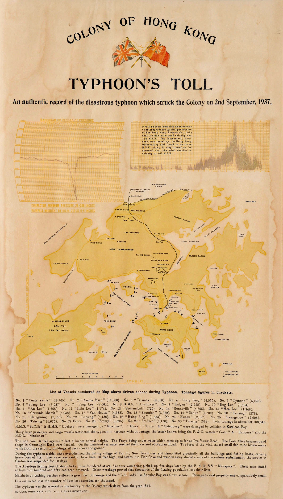 A poster detailing the losses suffered in 1937's Great Typhoon of Hong Kong. Courtesy of family of J.S. Snook